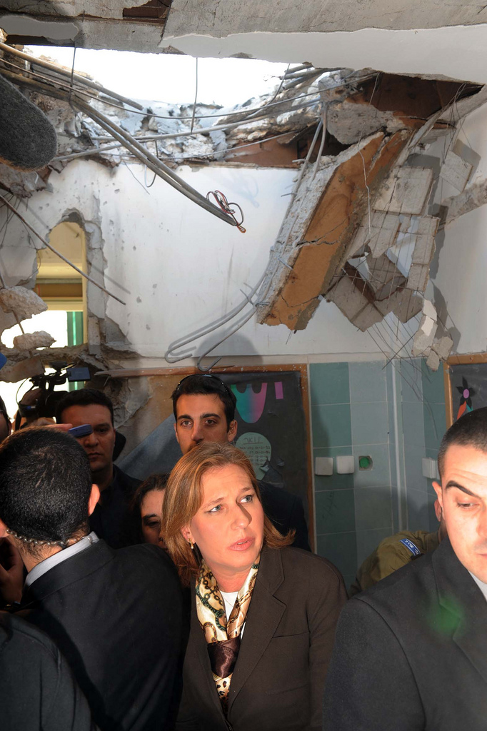 Grad rocket fired from Gaza hits Southern Israeli city of Beer Sheva and destroys a kindergarten classroom. Tzipi Livni visits the site.